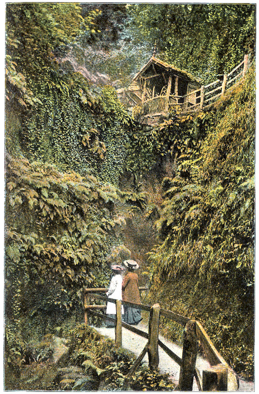 SHANKLIN CHINE.—A scene of sylvan loveliness beyond description. Winding paths extending from the shore for about one hundred yards, through one continuous bower of beauty, bring you to the head where in the wet season there is a cascade. In the summer the banks are one mass of ferns and foliage of varied form and colours. Quiet nooks are to be found where, during the heat of the day, a book can be enjoyed in the cool shade of the trees. Shanklin has the reputation of being the cleanest town in England. It is certainly the most beautiful in the Isle of Wight.